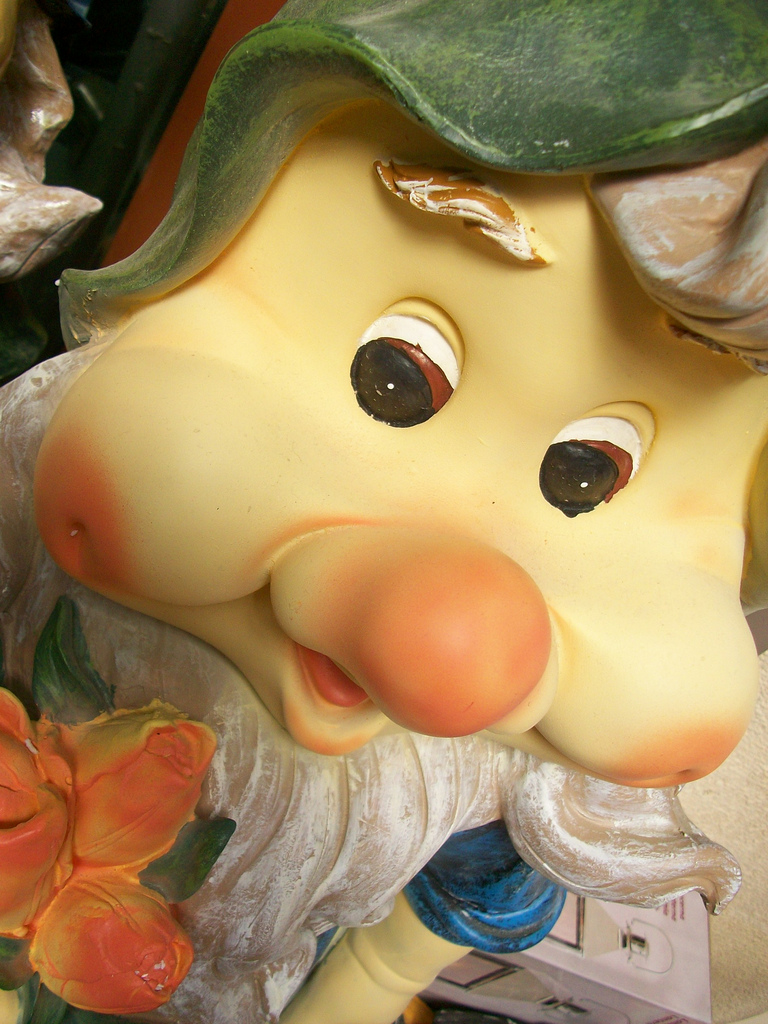 Dwarf statue